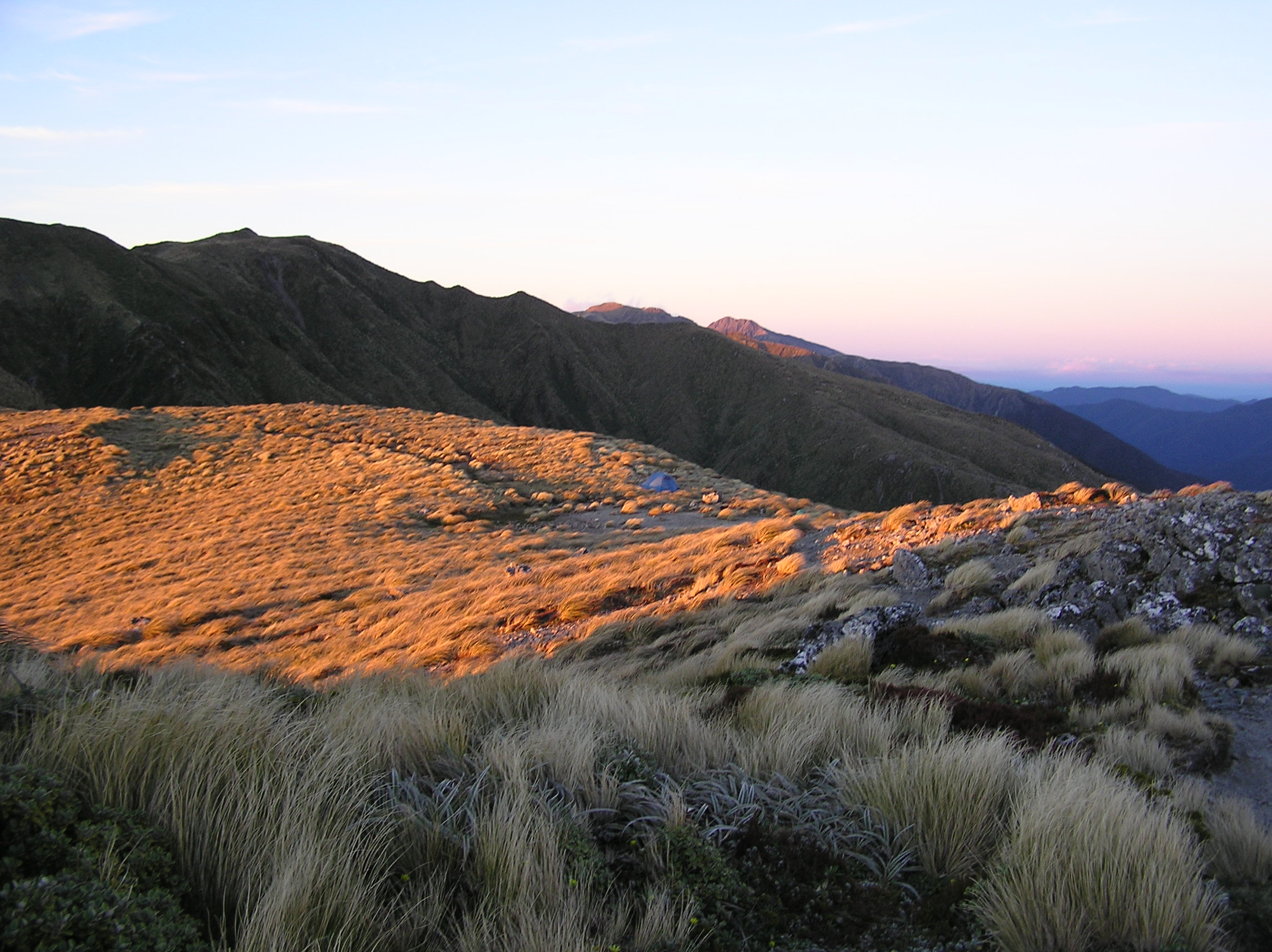 View from near top of Mt Holdsworth, Tararua Range, New Zealand.